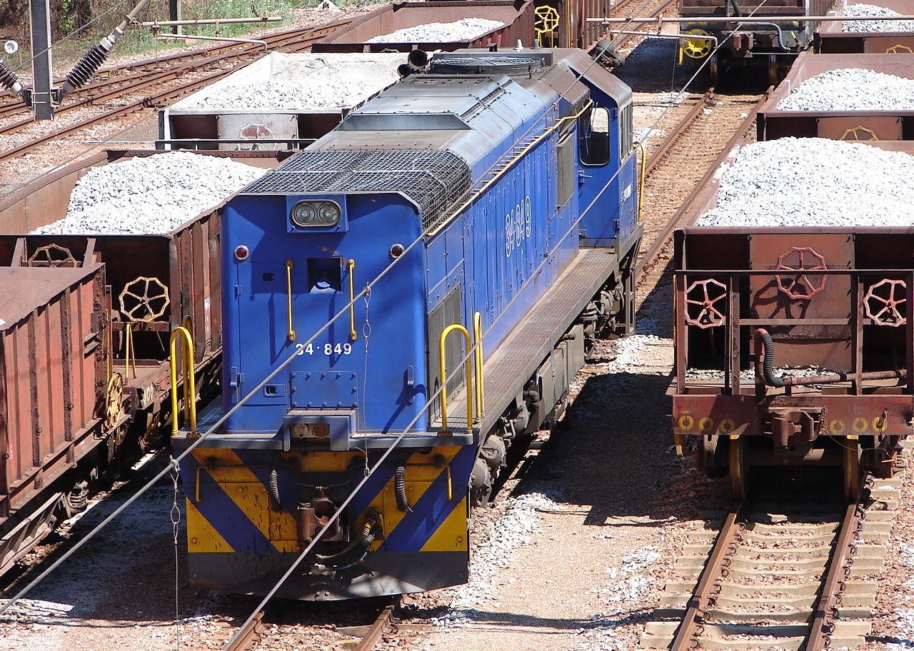 South African Class 34-800 34-849 Builder's Number: GMSA 112-49 Type: EMD GT26MC Location: Rust de Winter, Limpopo Upgrading: Fitted in 2010 with D31 traction motors and sill mounted handrails on the right side only